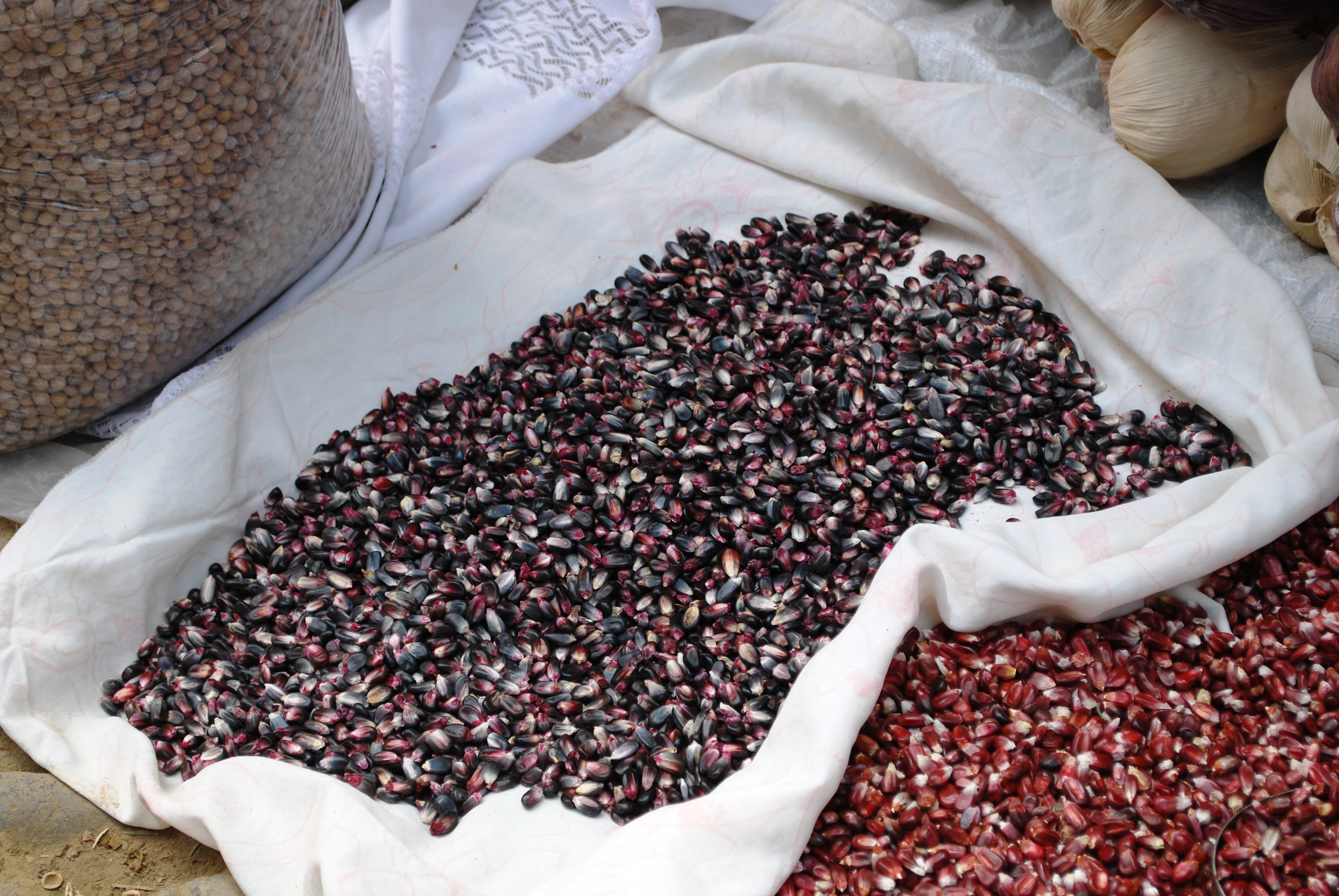 Dried blue corn kernals for sale in Amecameca, Mexico State